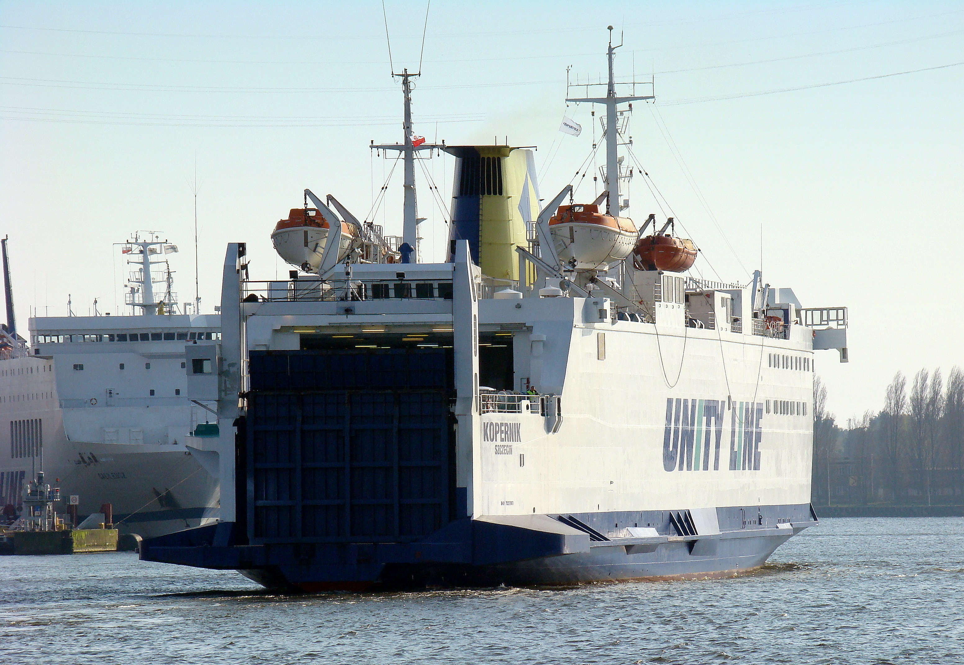 MF Kopernik, Swina (Ferry Terminal Swinoujscie). IMO Number: 7527887 MMSI Number: 261449000 Callsign: SPS2643 Length: 160 m Beam: 22 m